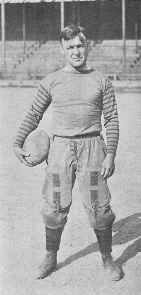 Washington Huskies football coach Enoch W. Bagshaw